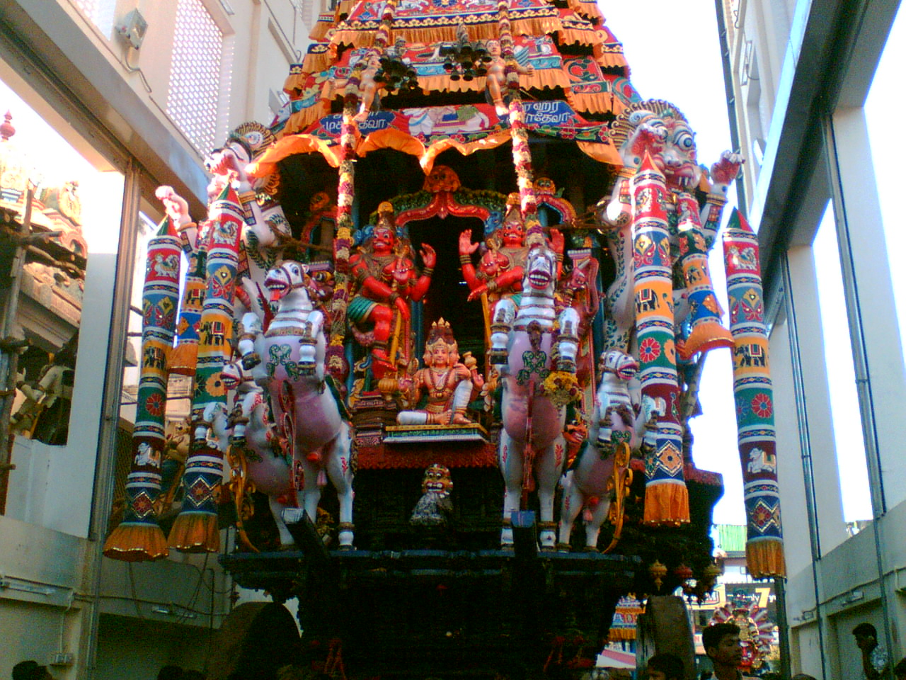 Kapali's chariot, with Brahma as the charioteer. Mylapore in Chennai, Tamil Nadu